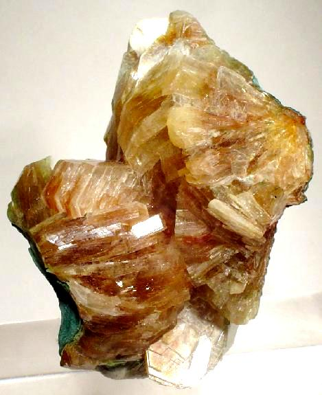 Heulandite-Ca Locality: Linópolis, Divino das Laranjeiras, Doce valley, Minas Gerais, Southeast Region, Brazil (Locality at ) An exceptional and aesthetic cluster of lustrous, translucent, tabular, light brown heulandite crystals on a bit of matrix from Linopolis, Brazil. Linopolis is the Type Locality of this calcium-rich varietal and this is a very good one. Excellent material from the Lewadny Collection. 4.8 x 3.0 x 2.2 cm